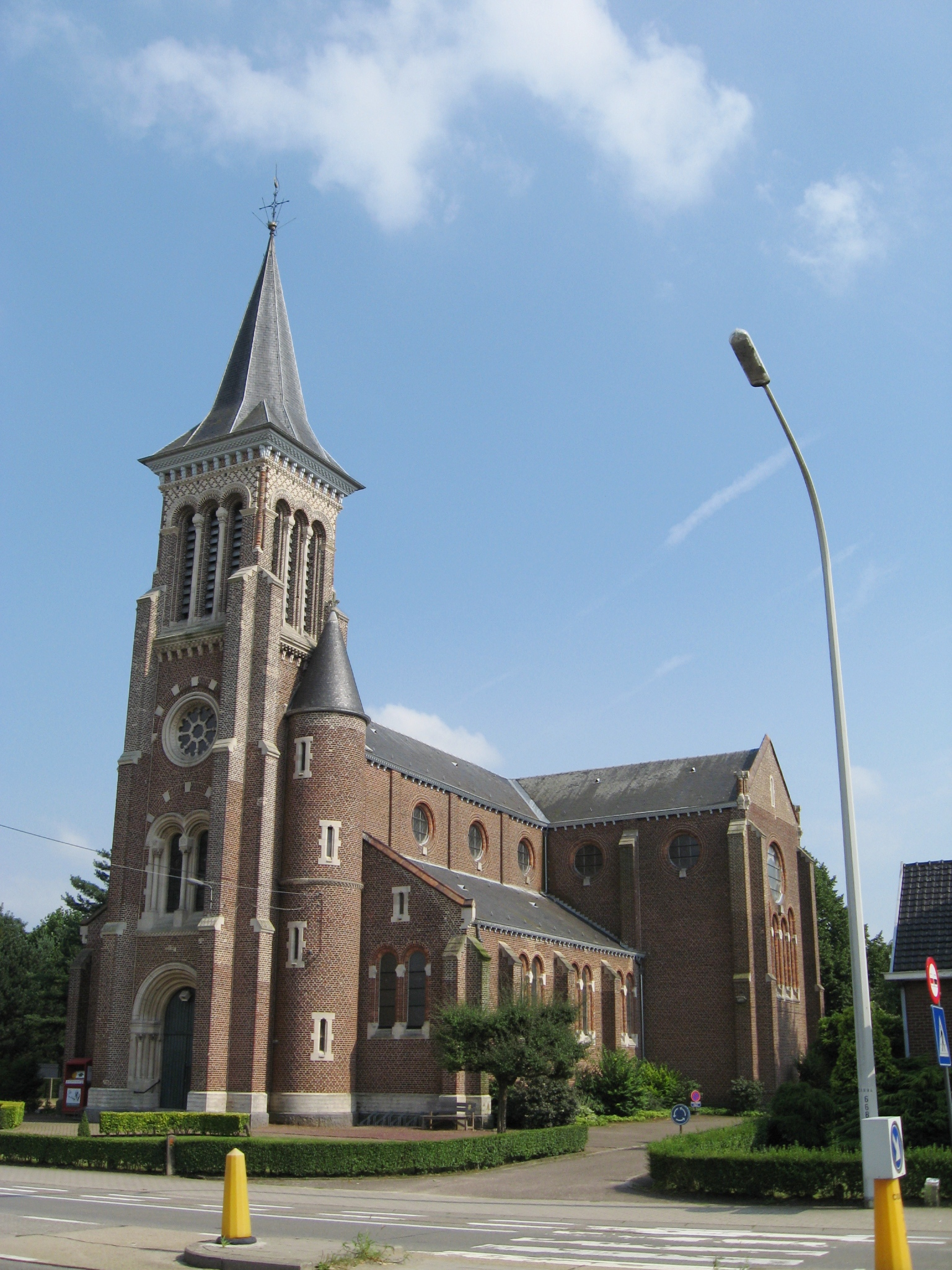 Church of Saint Peter in Bekkevoort, Flemish Brabant, Belgium